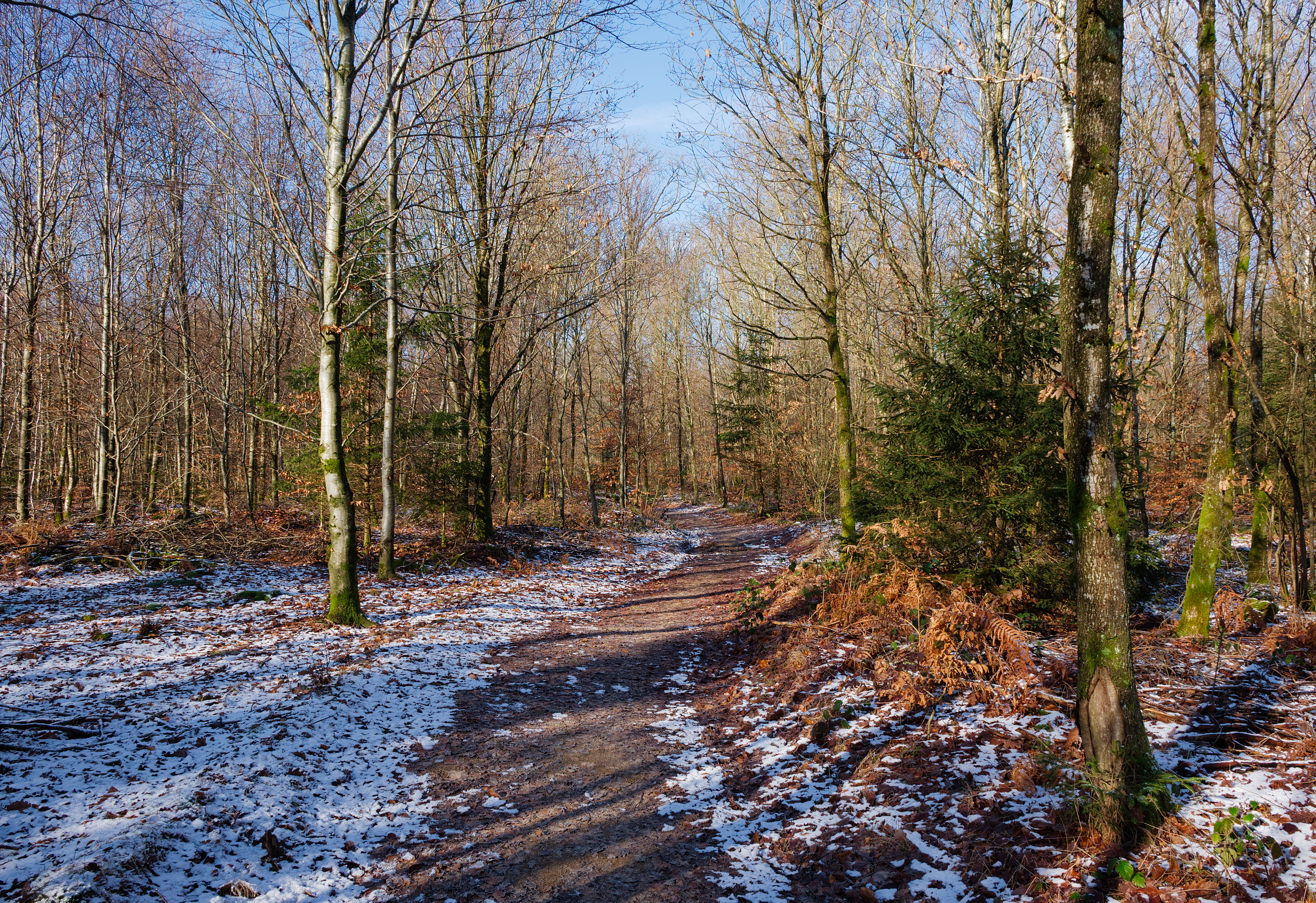 Woods trail in Chiny, Belgium